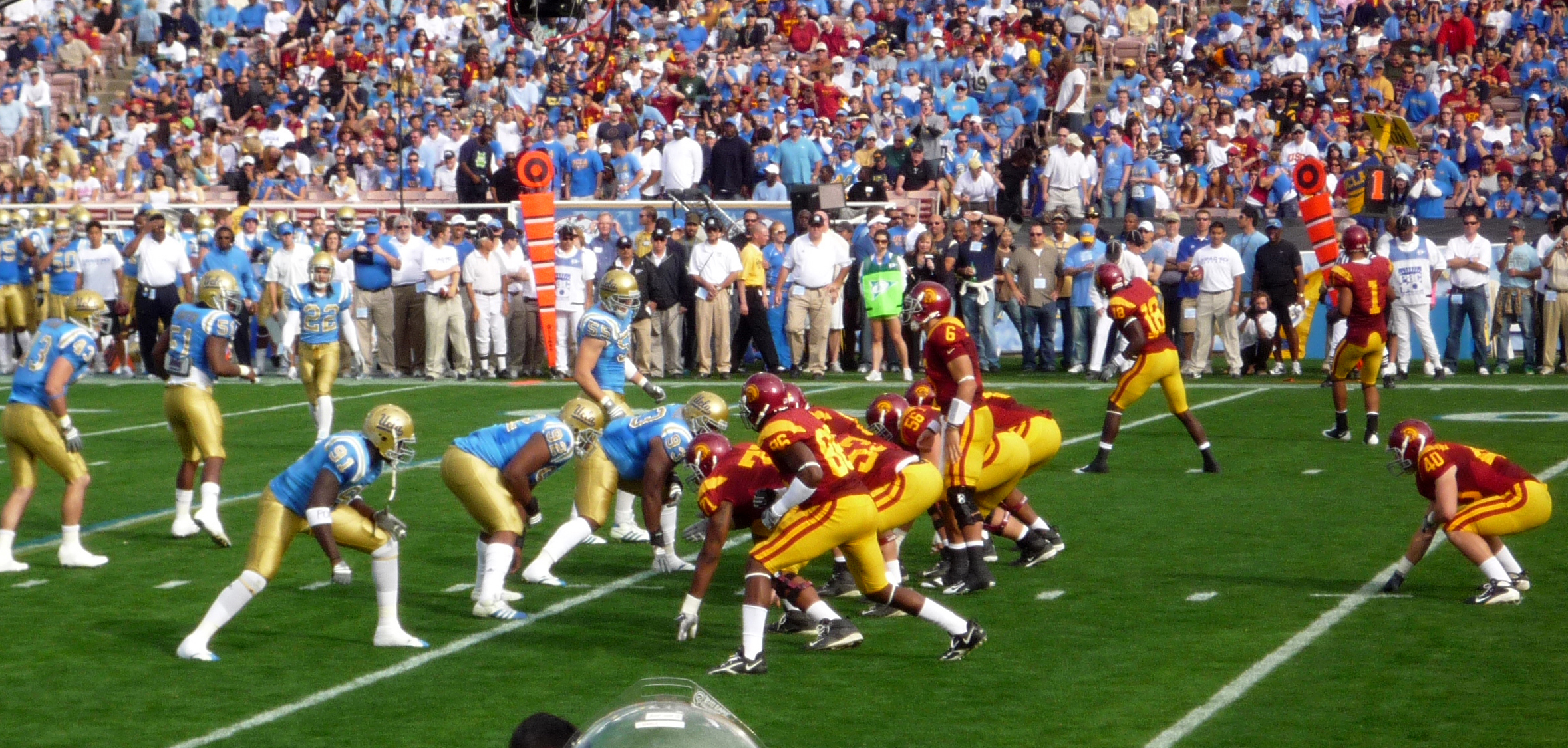 The 2008 UCLA-USC rivalry game: 2008 marked a return to the tradition of both teams wearing home jerseys during the game. Both teams had done so from 1929-1982, but had stopped; coaches Pete Carroll (USC) and Rick Neuheisel agreed to bring back the tradition.